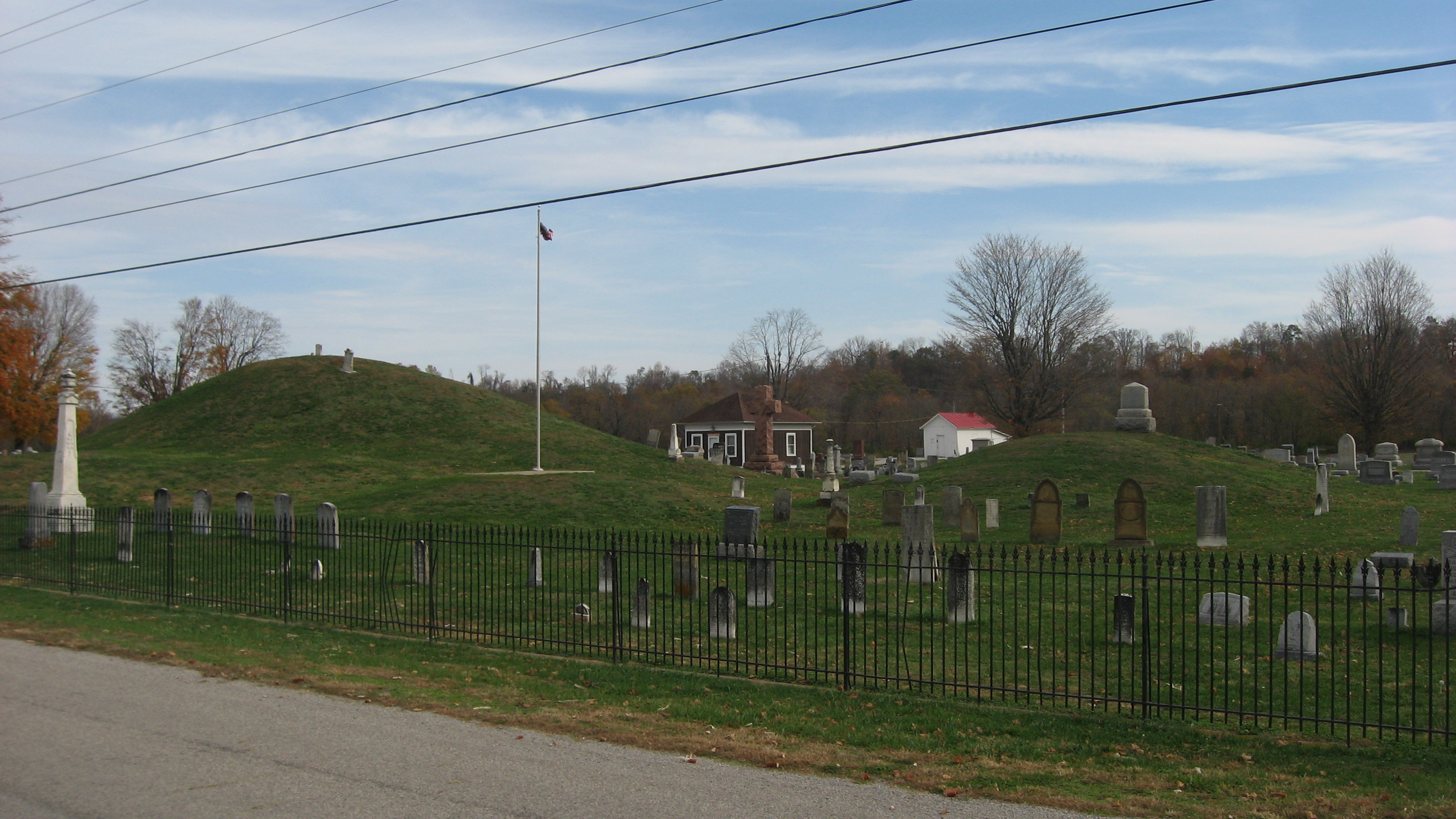 Comprehensive view of the Piketon Mounds, located in Mound Cemetery on the eastern side of Mound Cemetery Road south of Piketon in Seal Township, Pike County, Ohio, United States. The mounds are an important archaeological site and are listed on the National Register of Historic Places.